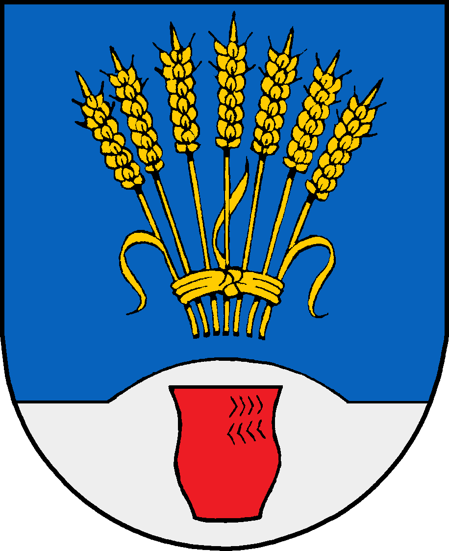 Coat of arms of the municipality Rethwisch in Schleswig-Holstein, Germany.